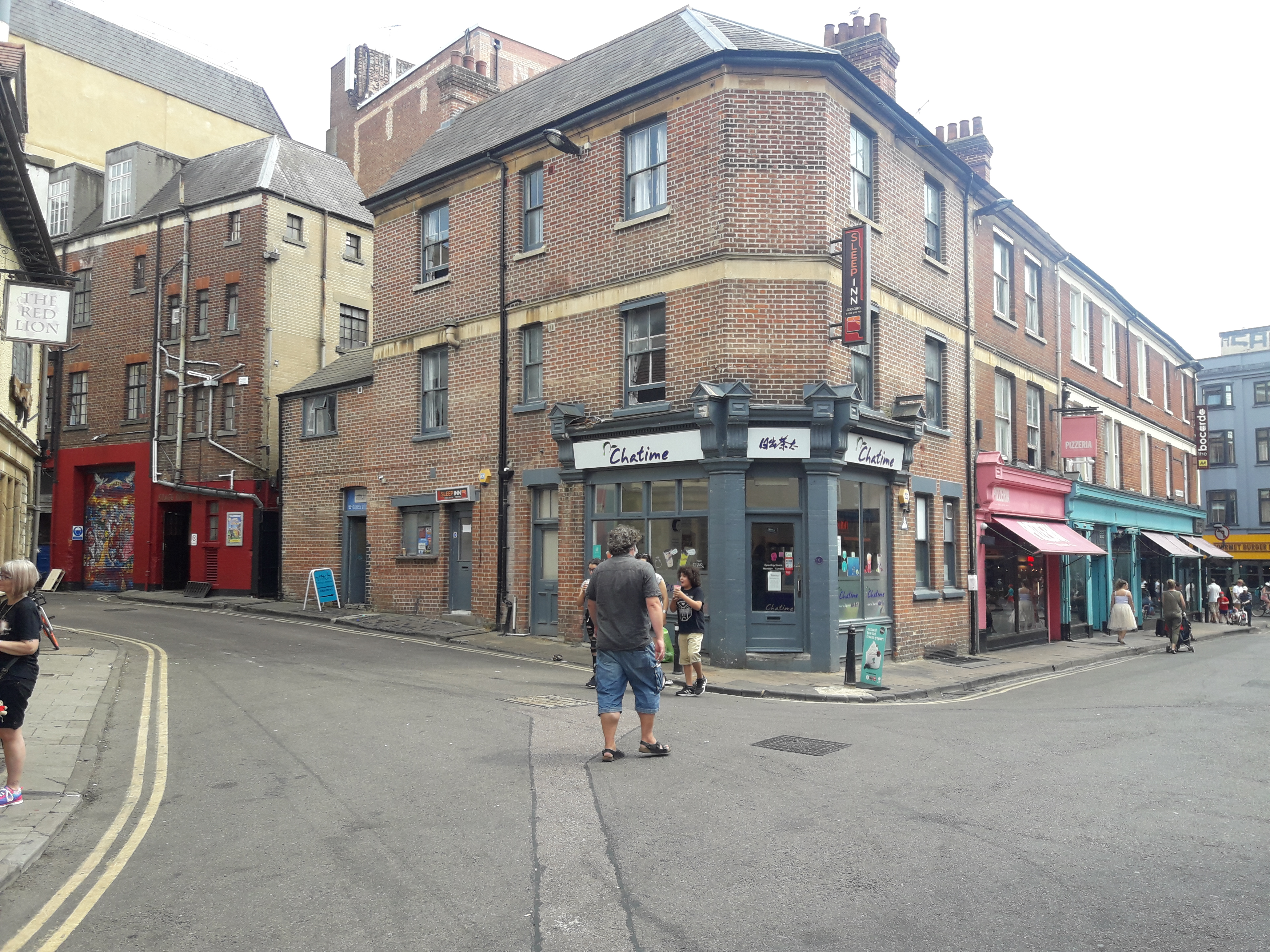 A Chatime outlet in Oxford, United Kingdom